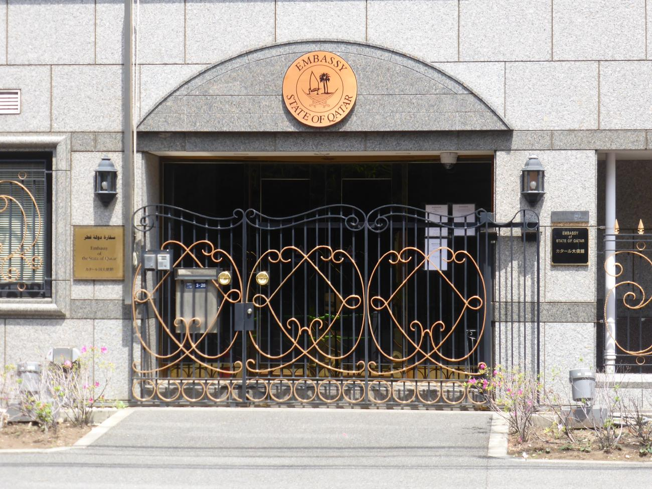 Gate of the Embassy of Qatar in Tokyo, Japan